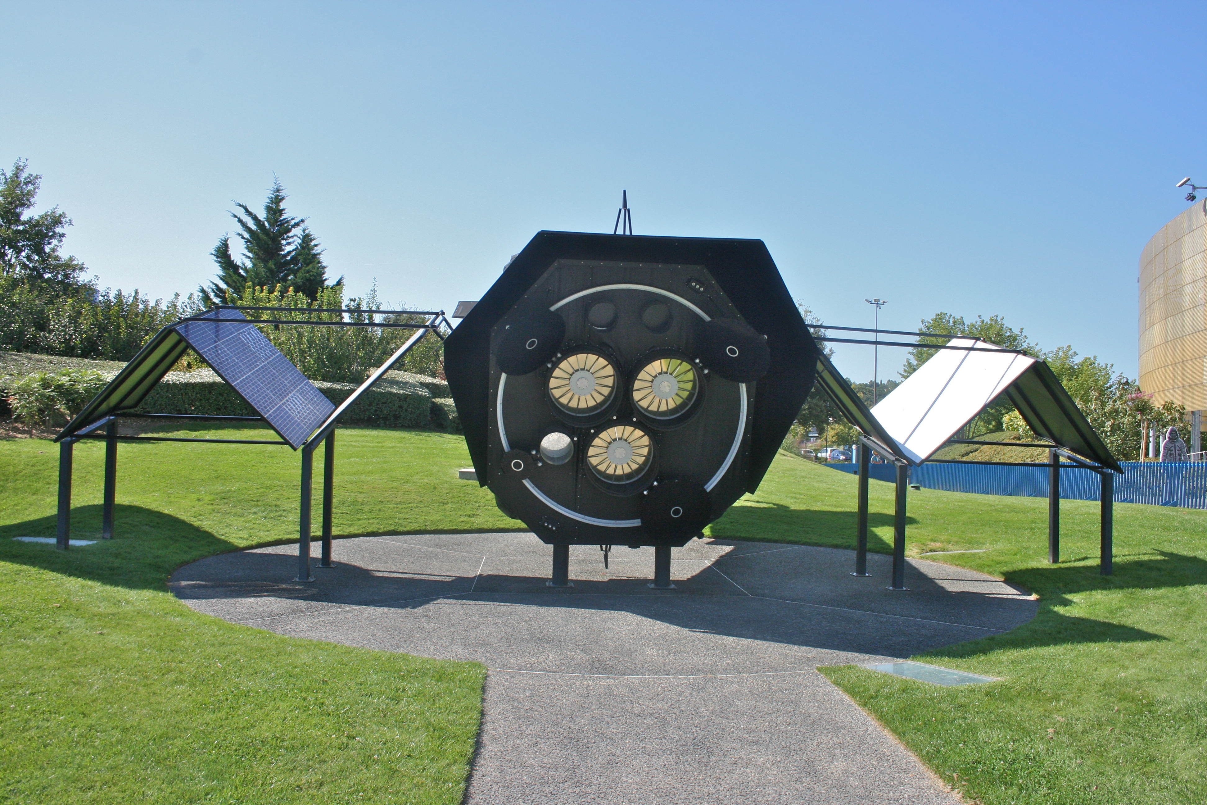 A replica of XMM-Newton at the Cite de l'Espace in Toulouse, France.